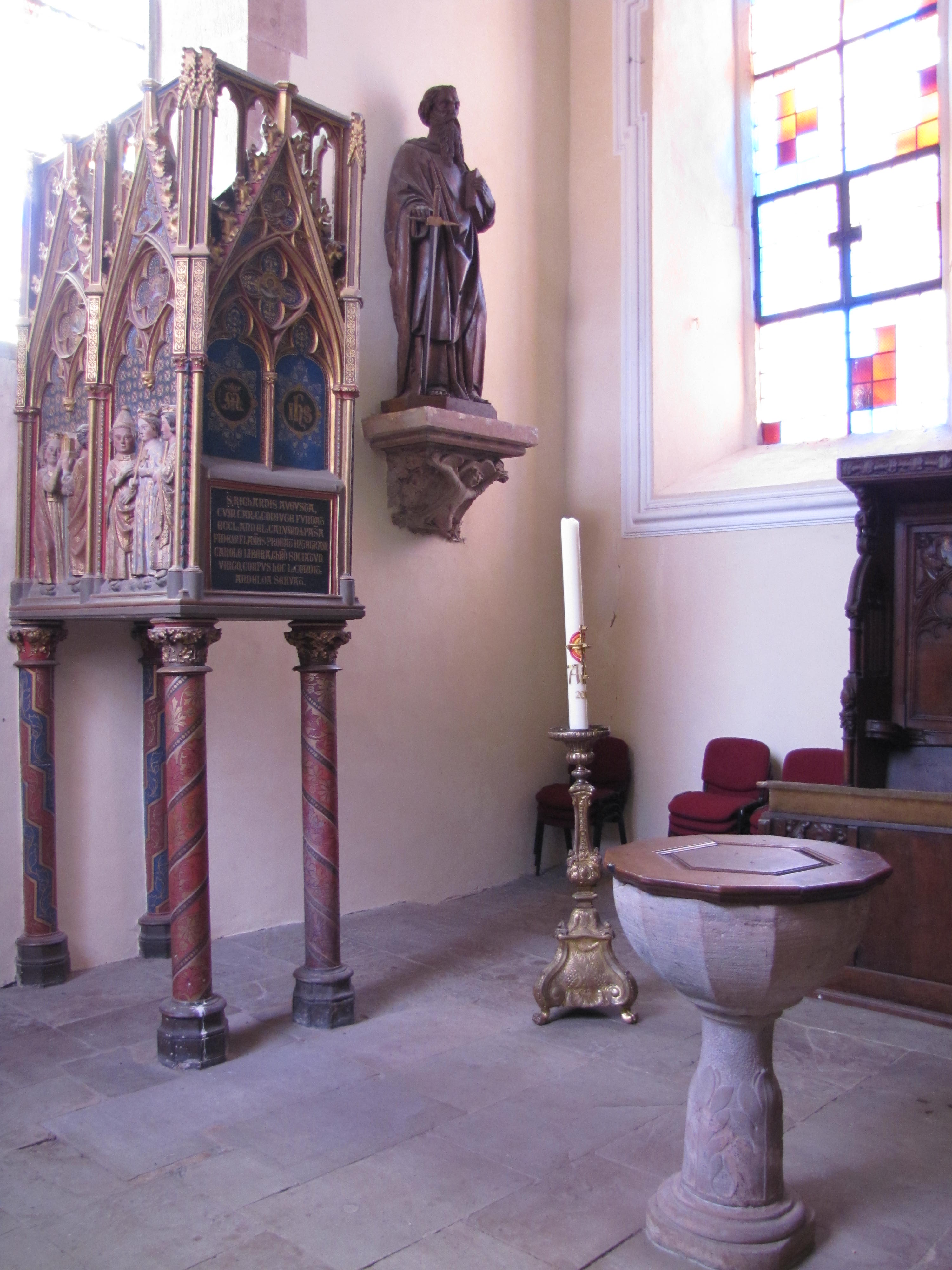 Alsace, Bas-Rhin, Église Saints-Pierre-et-Paul dite Sainte-Richarde (PA00084587, IA00115010). Châsse de Sainte-Richarde (XIVe-XIXe) This object is classé Monument Historique in the base Palissy, database of the French furniture patrimony of the French ministry of culture, under the references PM67000872 and IM67005789. Fonts baptismaux, chandelier pascal: This object is indexed in the base Palissy, database of the French furniture patrimony of the French ministry of culture, under the references fonts IM67005720 fonts and chandelier IM67005722 chandelier.